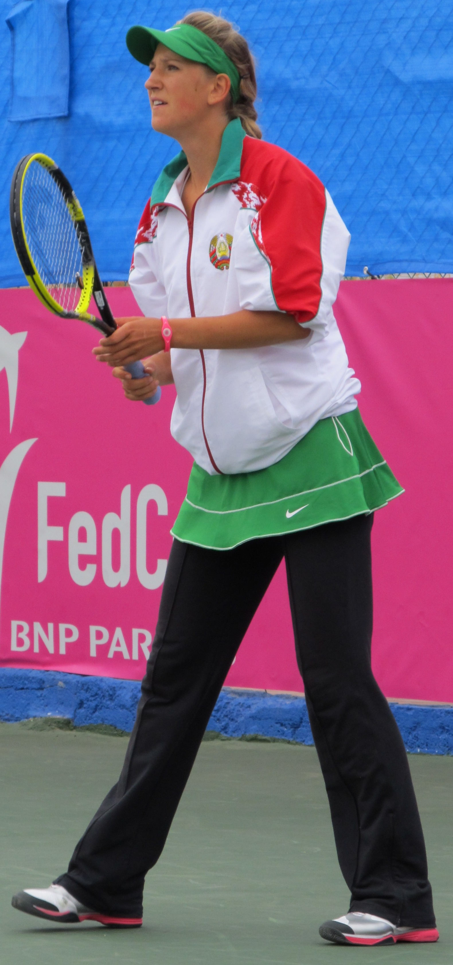 The tennis player Victoria Azarenka of Belarus before her match against Agnieszka Radwańska of Poland in the 4th day of Fed Cup Group I 2011 Europe/ Africa in Eilat, Israel